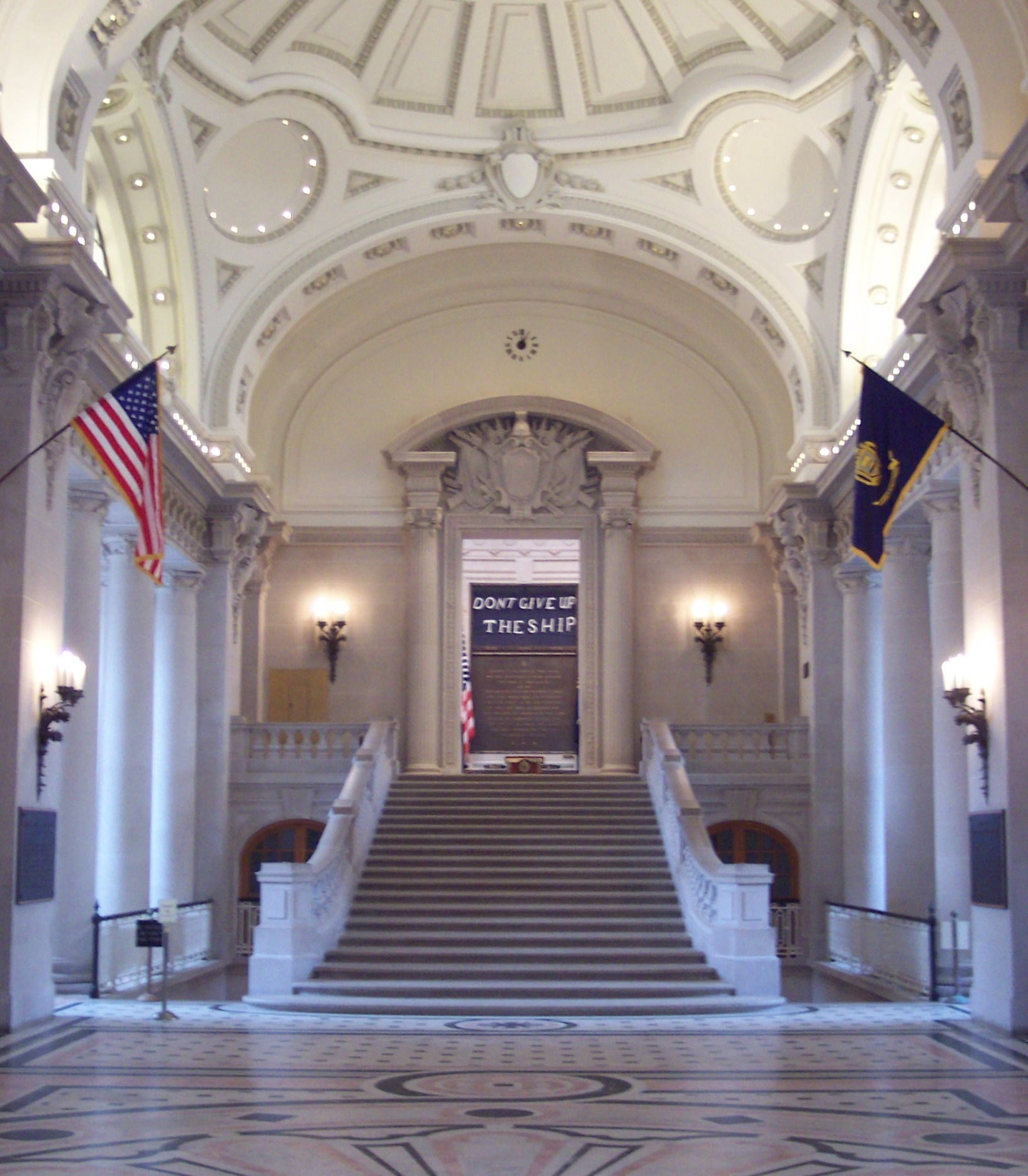 United States Naval Academy (October 15, 2006) - Taken in the rotunda of Bancroft Hall, the largest dormitory in the United States.